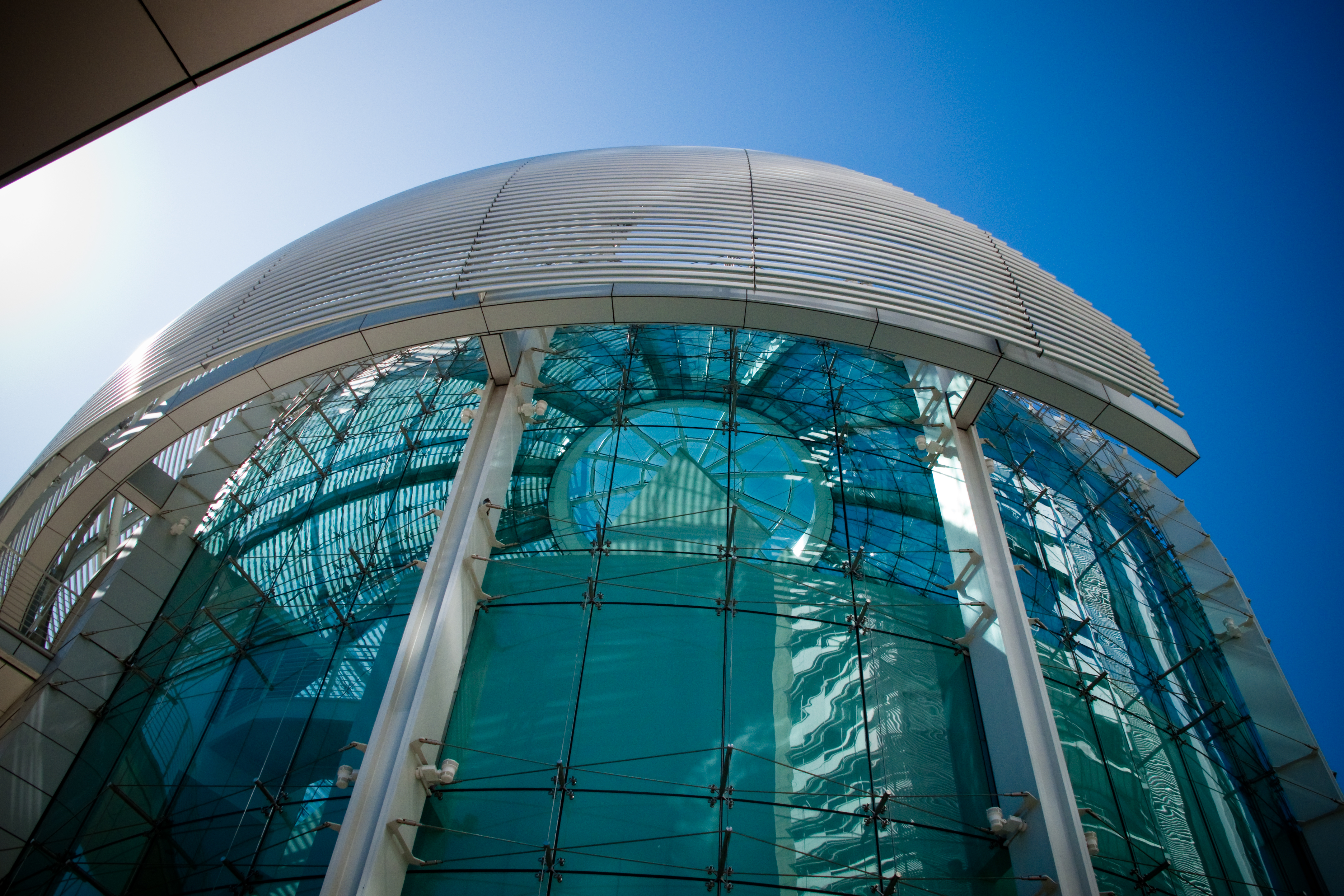 A look at San Jose's City Hall.